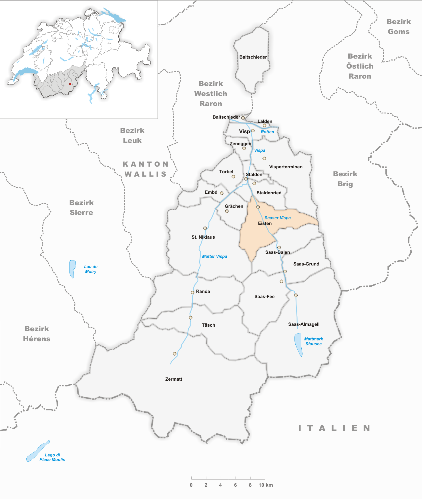 Municipality Eisten